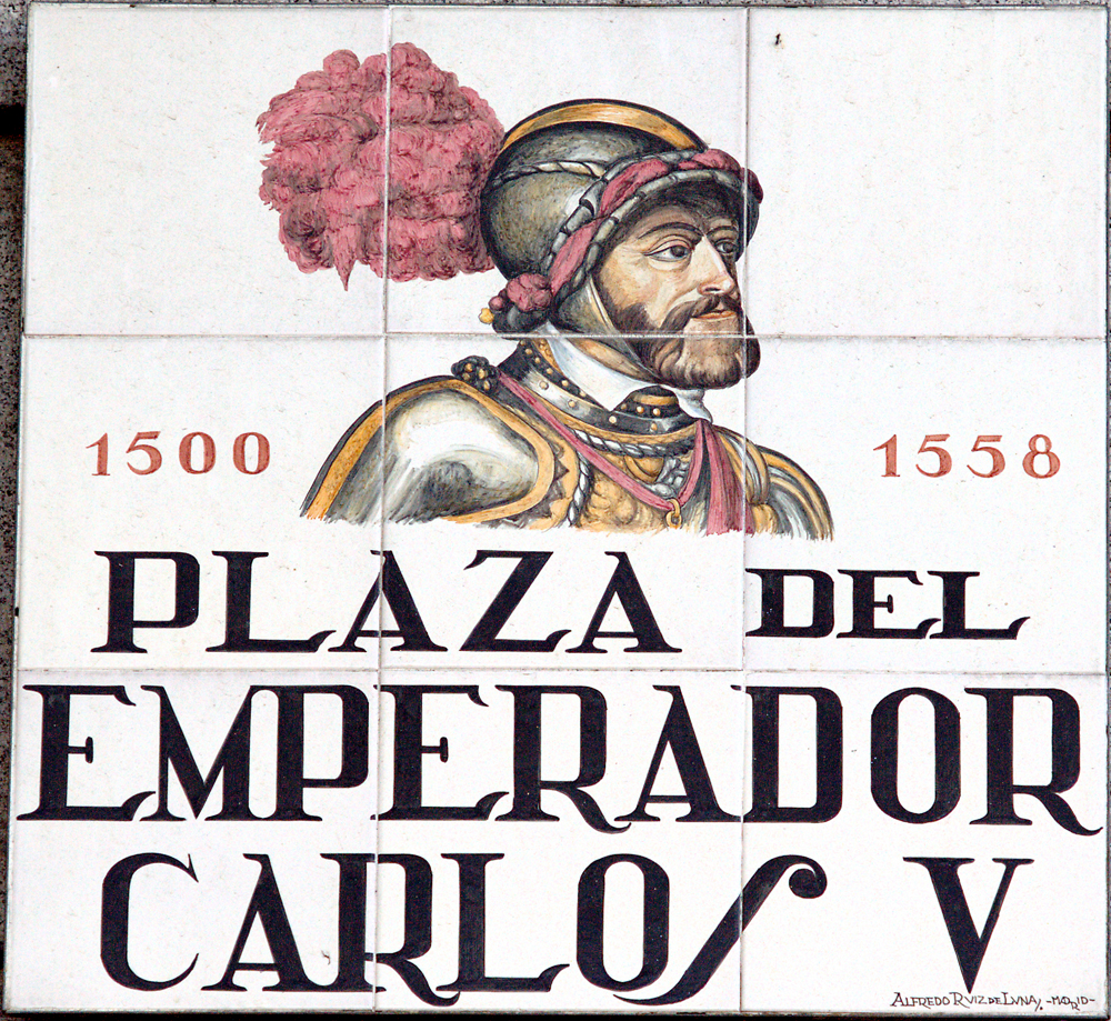 Sign of Plaza del Emperador Carlos V (square, Centro district) in Madrid (Spain).